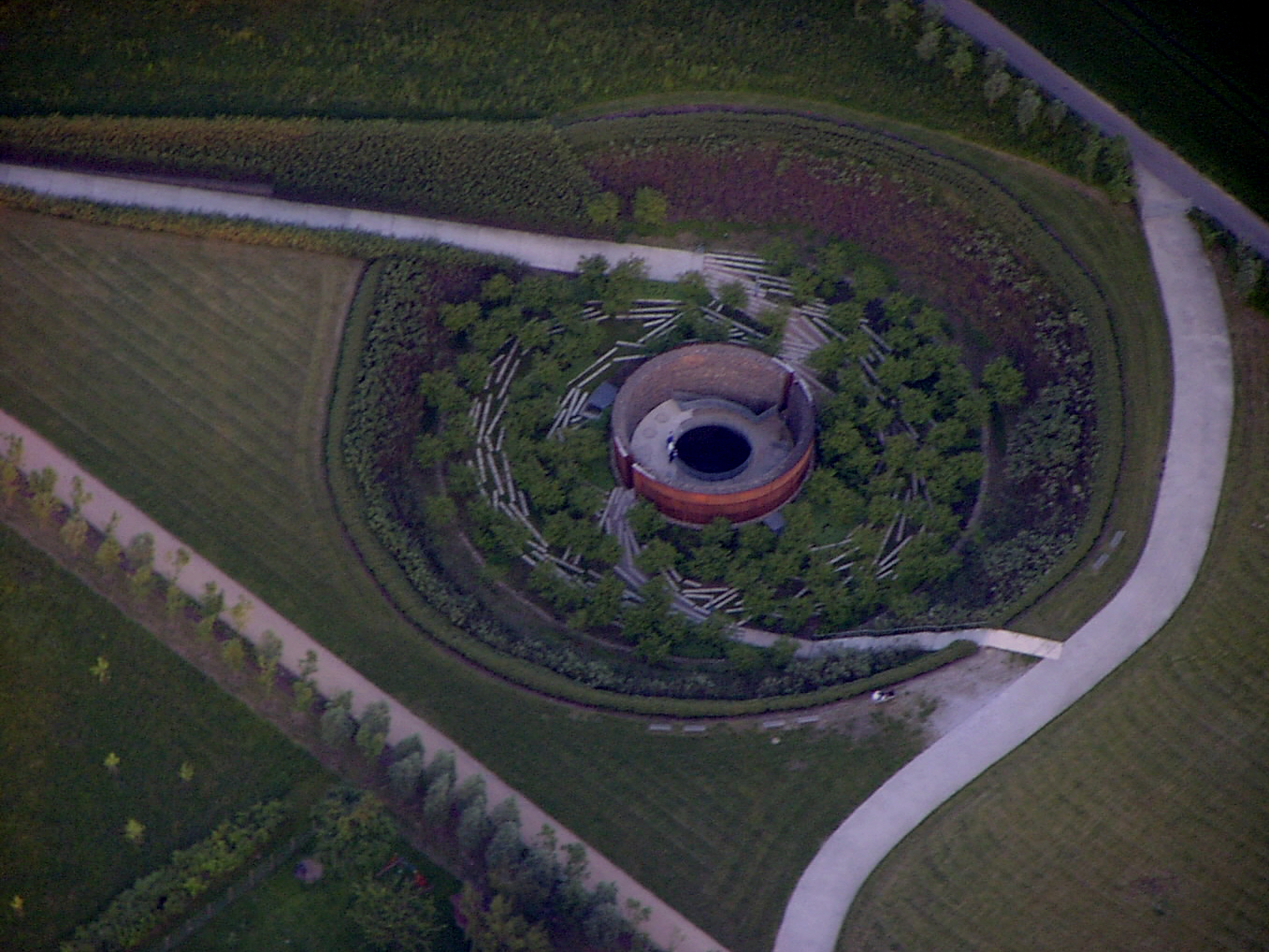 Watercrater in town of and Bad Oeynhausen and Löhne, District of Herford, North Rhine-Westphalia, Germany. The crater was the top attraction during the State Gardening Show Aqua Magica.